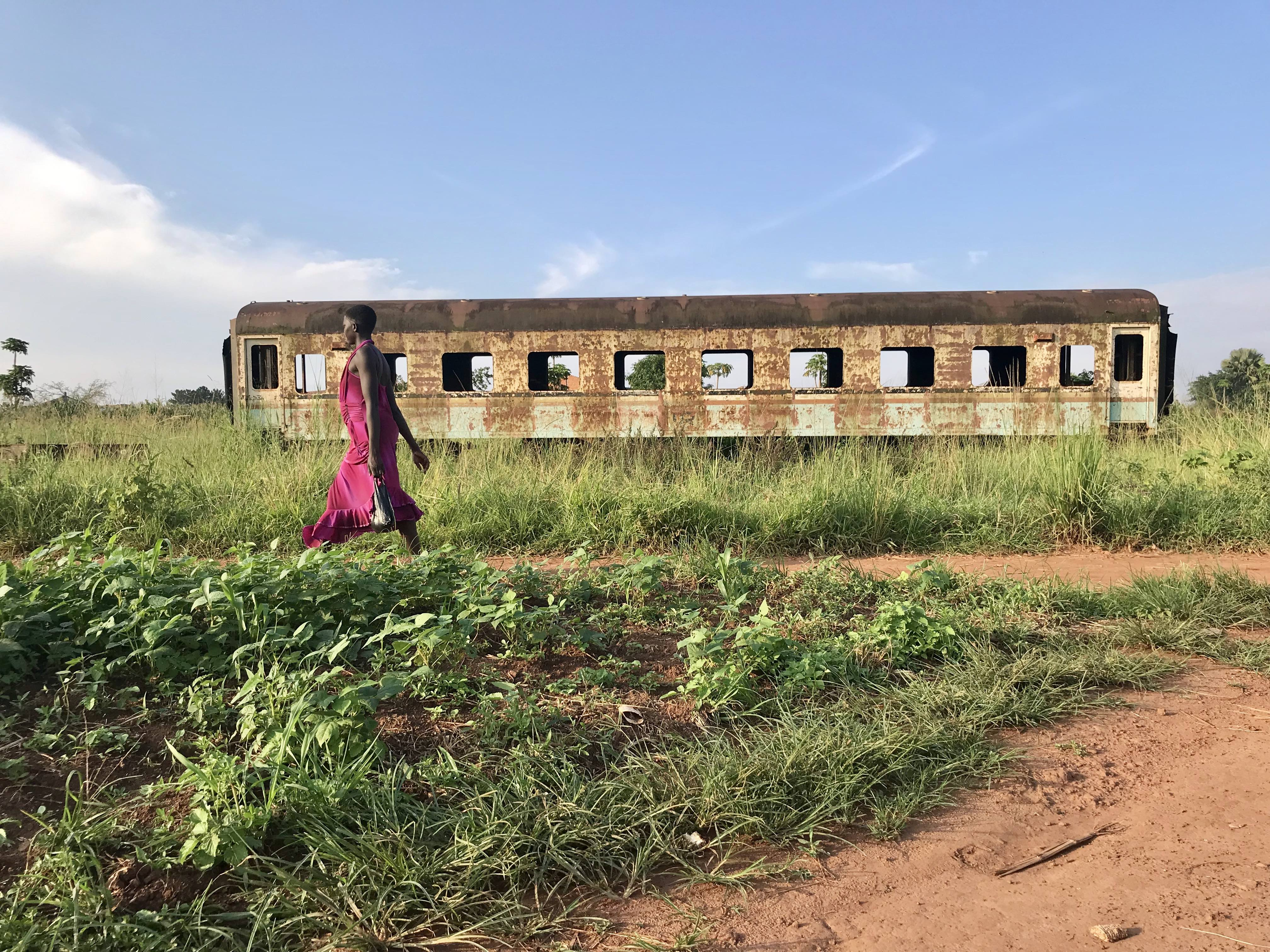 A lady walks along a footpath, adjacent to the old railway tracks in Gulu, Uganda This is an image with the theme "Africa on the Move or Transport" from: Uganda